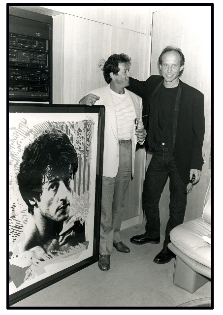 Jim Evans presents painting to Sylvester Stallone